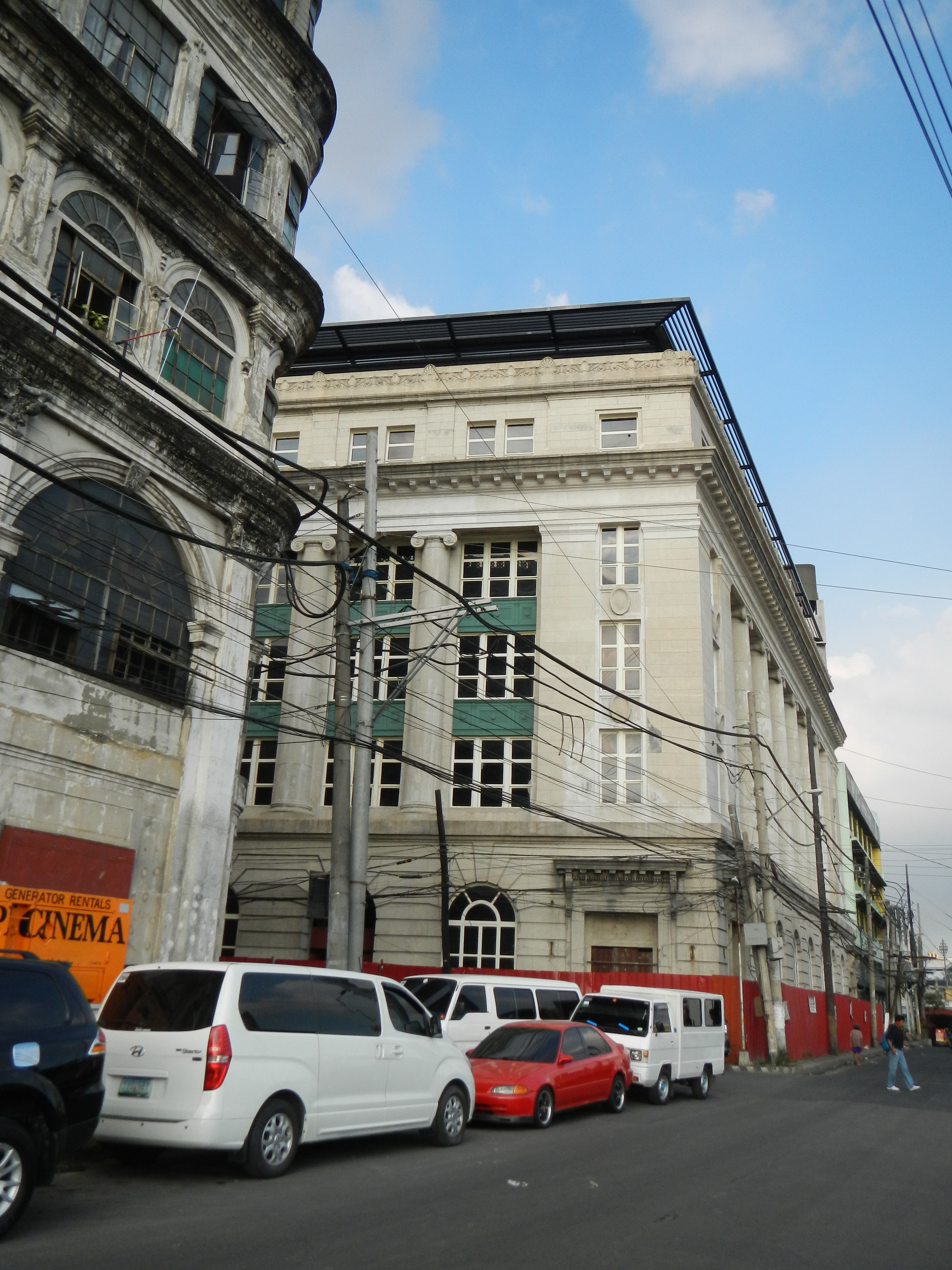 Upload Wizard photos of - a) Jones Bridge, Manila [1], a bridge that spans the Pasig River[2] in the Philippines connecting the districts of Binondo[3] on Rosario Street (Calle Rosario, now Quintin Paredes Street) with the center of Santa Cruz, Manila[4] the previous bridge that connected the two districts was the Puente Grande (Great Bridge), later called the Puente de España [5] (Bridge of Spain) located one block upriver on Nueva Street (Calle Nueva, now E. T. Yuchengco Street) considered to be the oldest established in the Philippines, beside the Postal Bank and Manila Central Post Office, Binondo, Manila and view of Santa Cruz, Manila b) beside also, is the Estero de Binondo [6] one of six major tributaries of Pasig river mentioned in Rizal's Noli Me Tangere Coordinates: 14°35'52"N 120°58'26"E Barangay 282 Zone 26 - part of the List of rivers and estuaries in Metro Manila[7] - with pumps of the Maynilad Water Services [8] Water Delivery Sewerage and Sanitation - Canal de la Reina floodgate [9] Pumping station [10] that end at Muelle de Binondo - the M. dela Industria Bridge, 15 Tons maximum, Pumping Stations, West Metro Manila Flood District, under MMDA, c) the Savory restaurant, beside the Arko ng Pagkakaibigang Pilipino-Tsino (Filipino-Chinese Friendship Arch at Binondo), Philtrust Bank, Bureau of Lands Management (Philippines) [11] Plaza Cervantes, Binondo, Manila, Philippines cor. Quintin Paredes Street (Binondo District) corner Escolta Street [12].